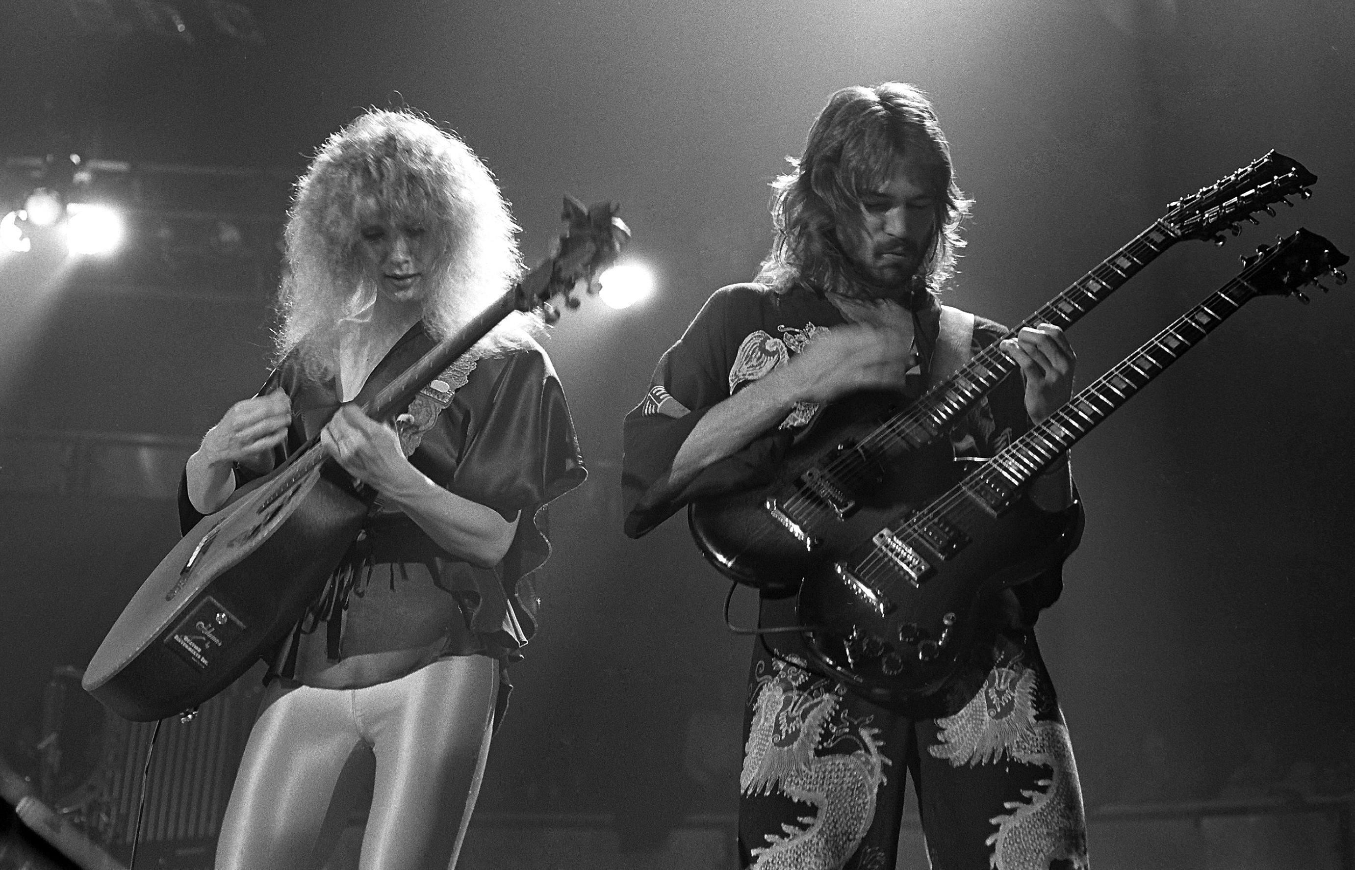 Nancy Wilson (left) and Roger Fisher (right) of the American rock band Heart